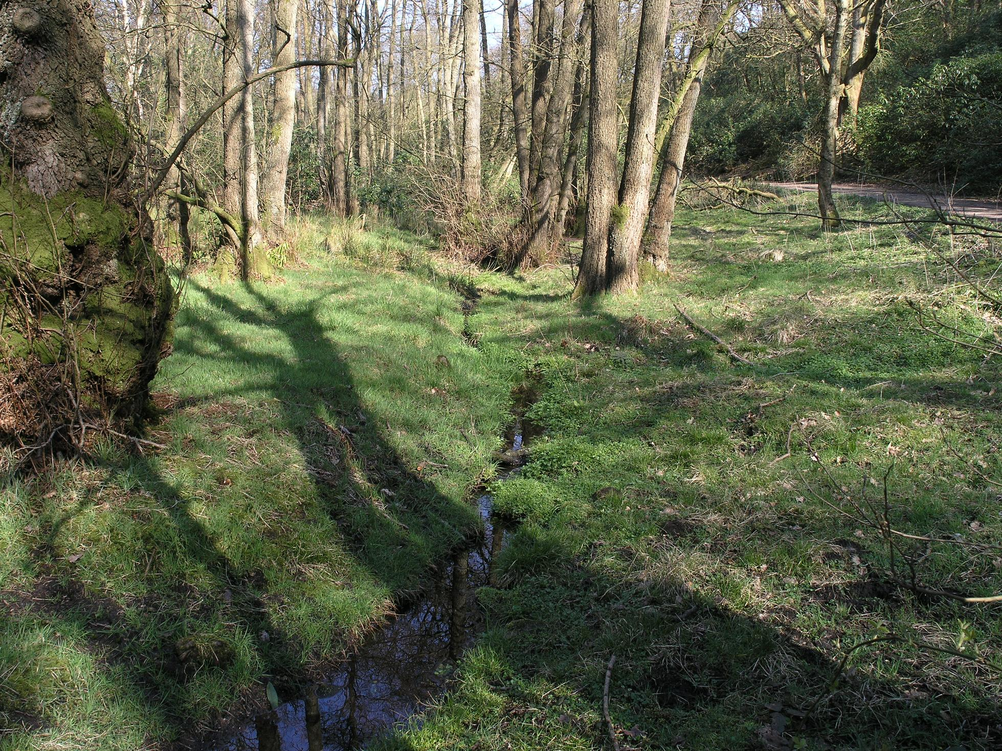 Typical habitat of Chrysosplenium oppositifolium in Britain - wet upland alder forest. Near Garstang, Lancashire, England.